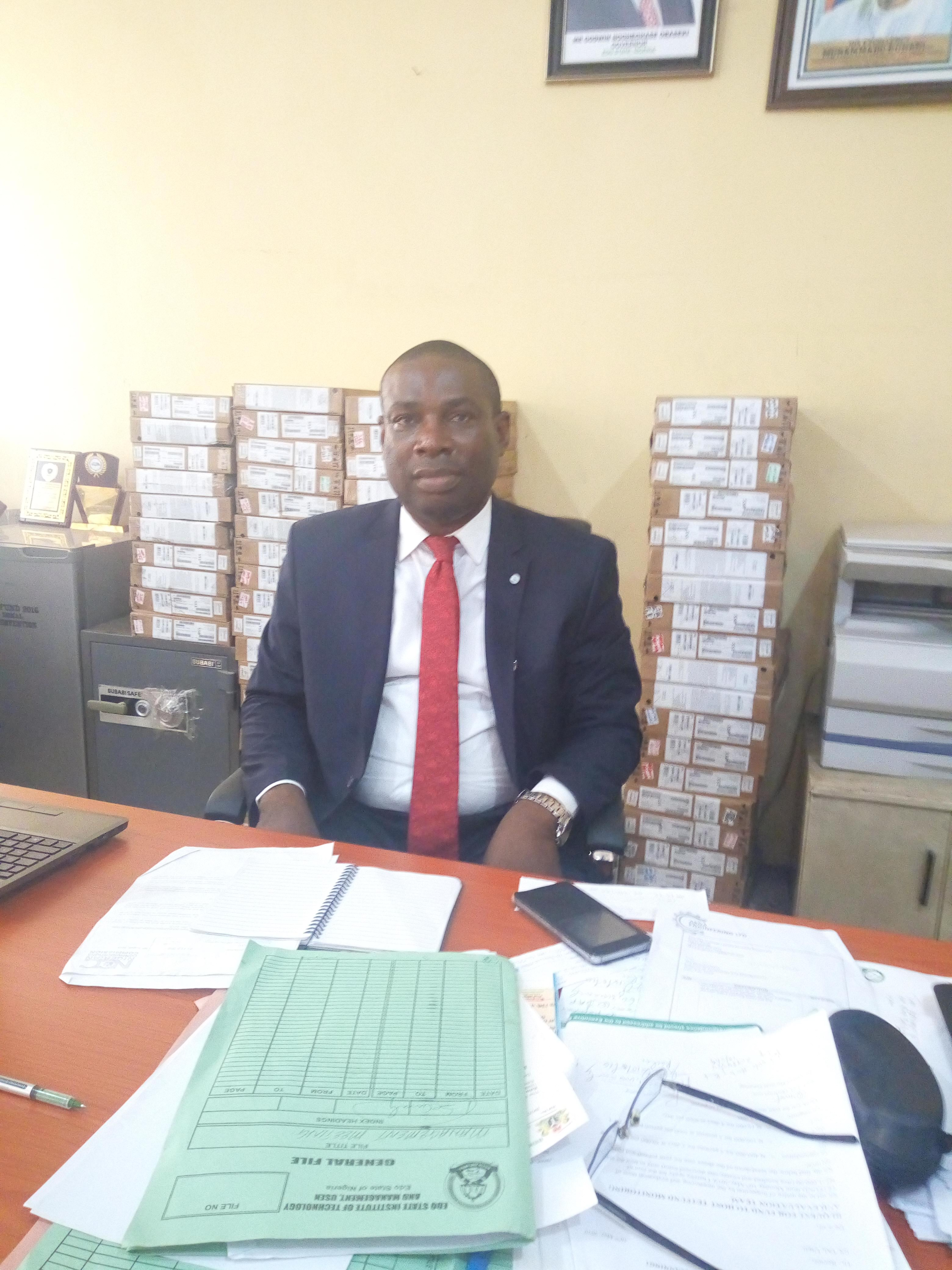 Professor Abiodun Falodun sitting in his office at the Polytechnic Usen.